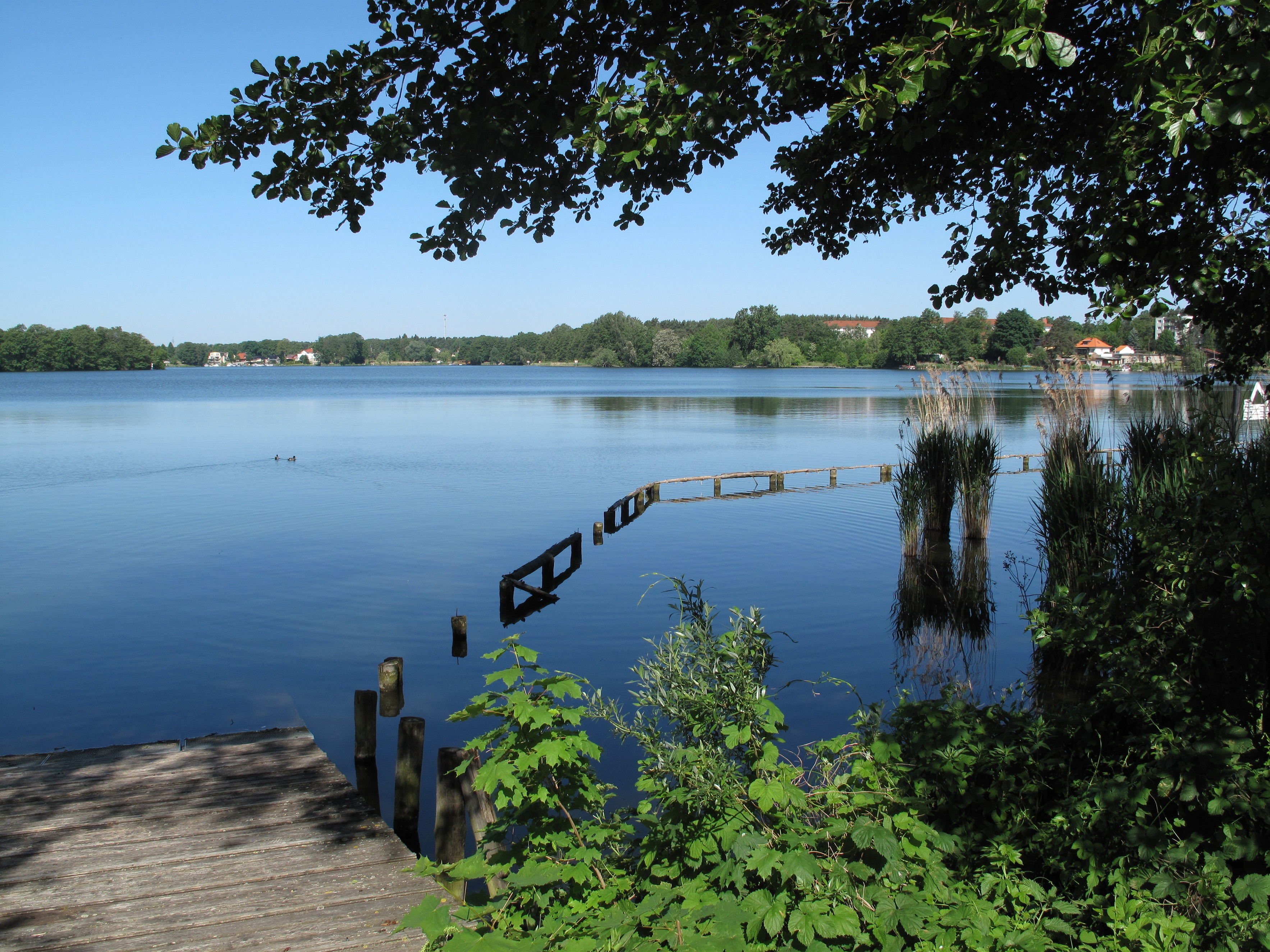 View from the on the east bank of the Werlsee to the island Lindwall. The Werlsee is a lake in Fangschleuse and Grünheide, parts of the municipality Grünheide, District Oder-Spree, Brandenburg, Germany. The lake covers 60 hectare.